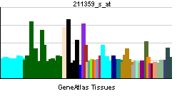 Gene expression pattern of the OPRM1 gene.